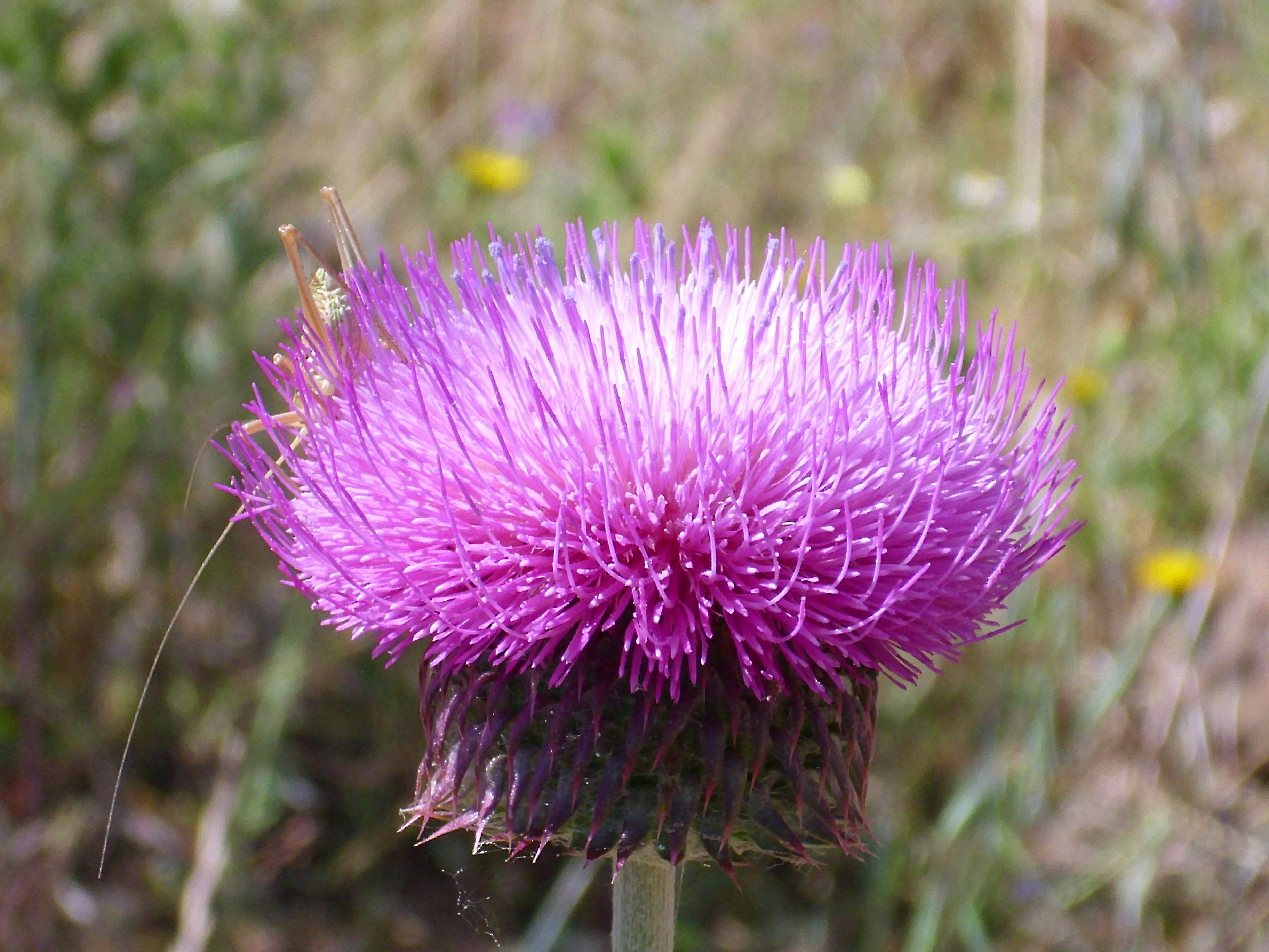 Carduus platypus subsp. granatensis inflorescencia close up, Valle de Alcudia, Spain